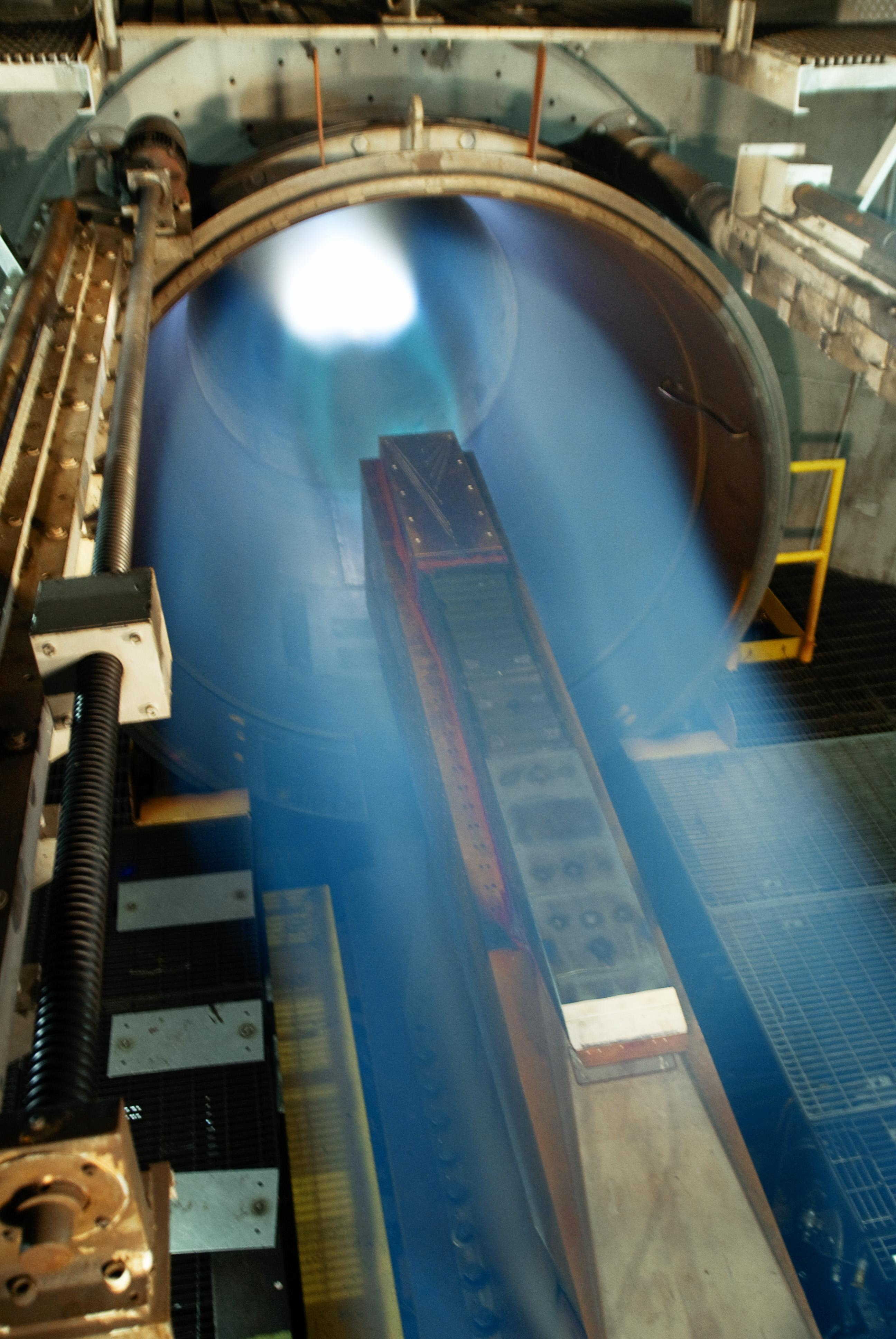 In this image, the SJX61-2 successfully completed ground tests simulating Mach 5 flight conditions at NASA's Langley Research Center, Hampton, Va.